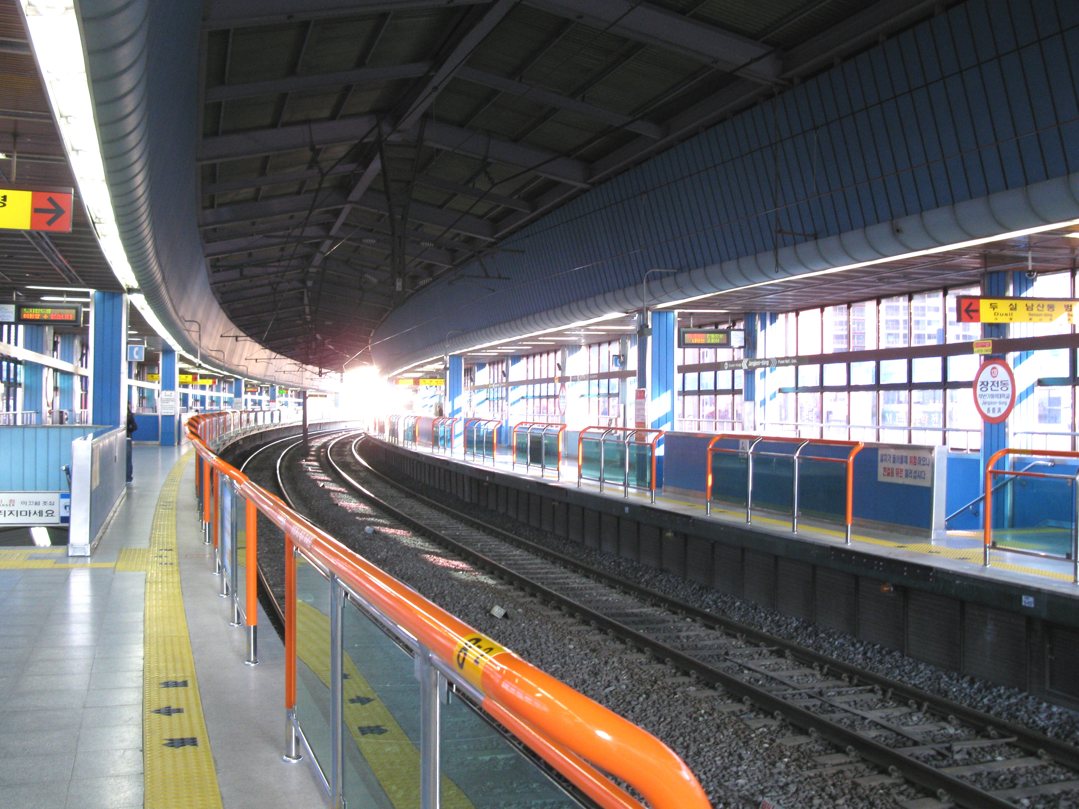 The platforms at Jangjeon-dong Station on the Busan Subway Line 1